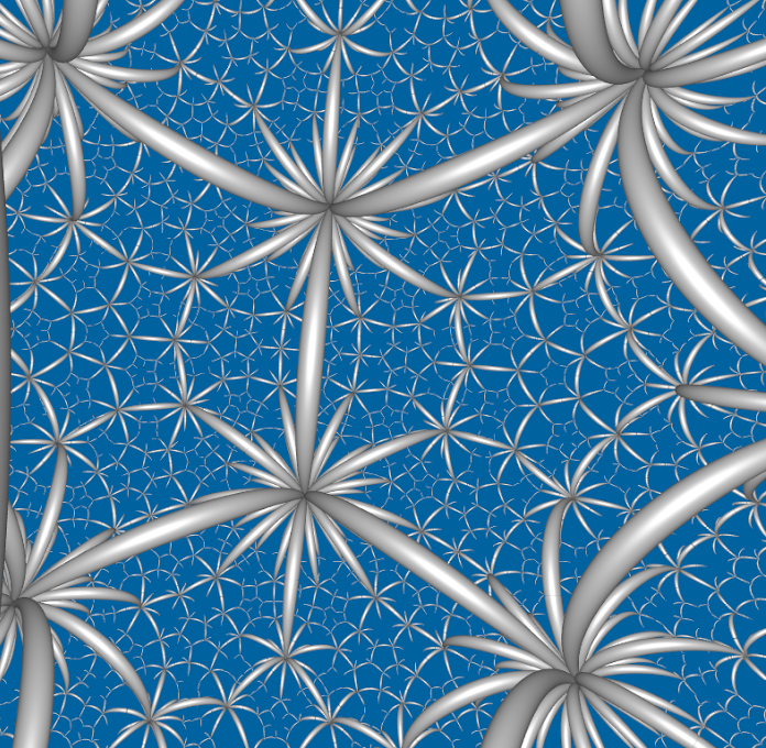 Order-6 dodecahedral honeycomb